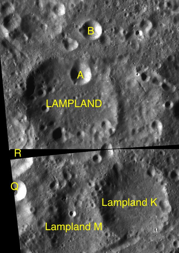 Parts of the charts LAC-102, LAC-118 used for the presentation